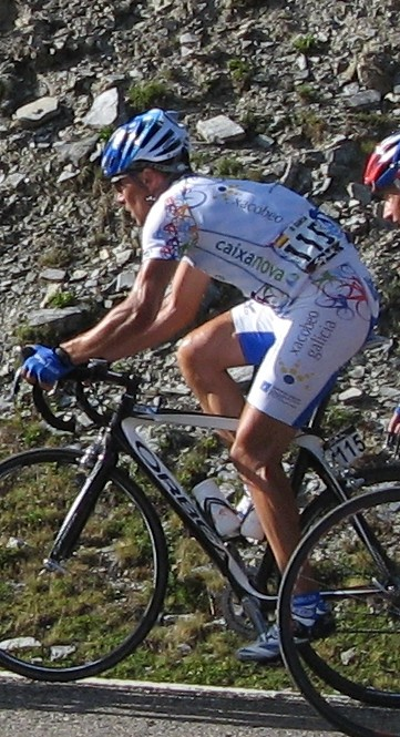 David García, 2008 Vuelta a España, 8th stage, Port de la Bonaigua, Spain.